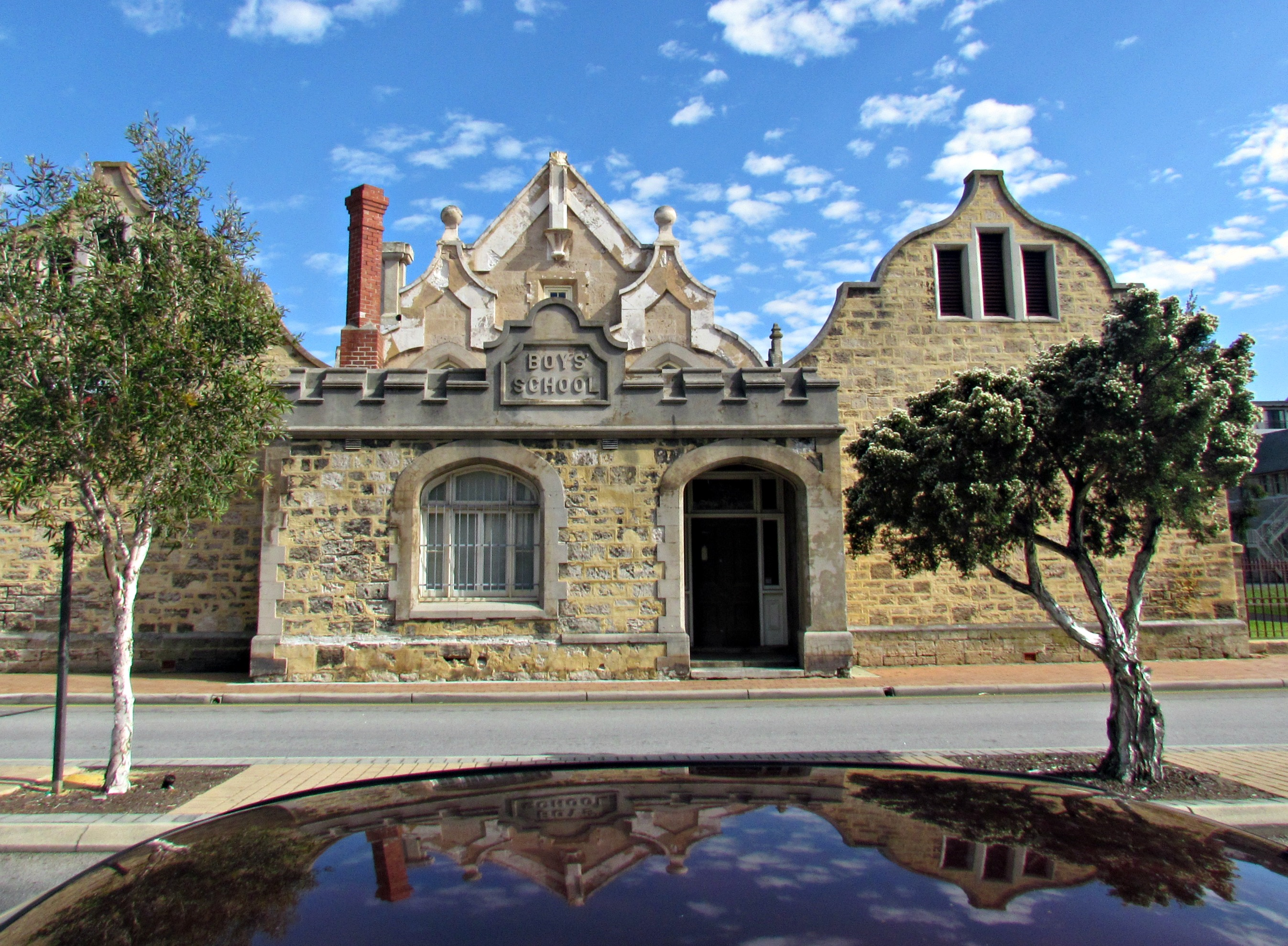 Fremantle Boys School This heritage-listed 19th century Fremantle Boys’ School in Princess May Park now houses a state-of-the-art Film & Television Institute having finished up as a school in 1958, It is the premier centre for independent screen production & events in Western Australia. The school was designed by William Ayshford the Colonial Secretary from 1852 -1855, It was built by the same convicts who worked on Fremantle Prison and the Fremantle Asylum. Construction of the school began in February 1853 and was completed in 1854.